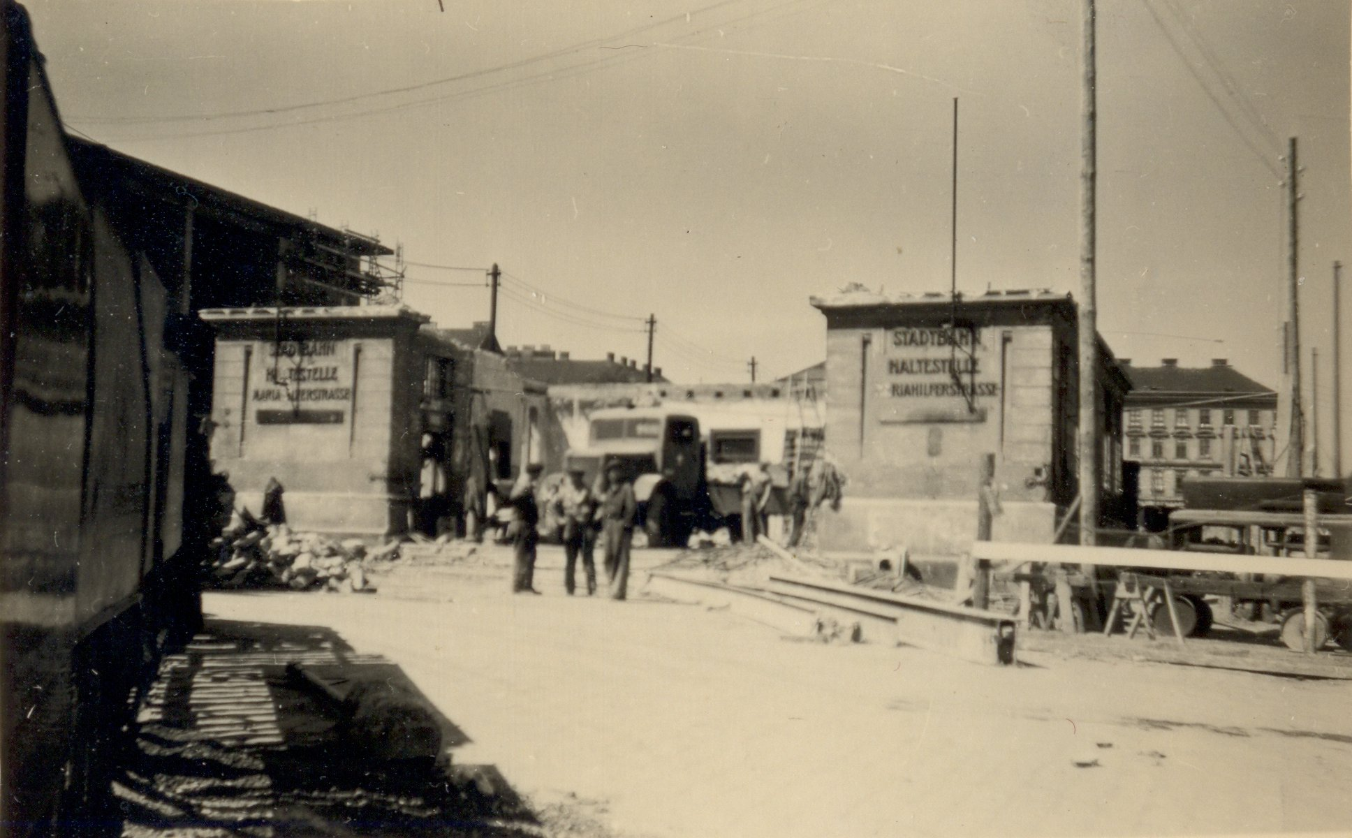 Demolition of former Metropolitan Railway Station Mariahilferstrasse-Westbahnhof in Vienna. Original building by Otto Wagner.